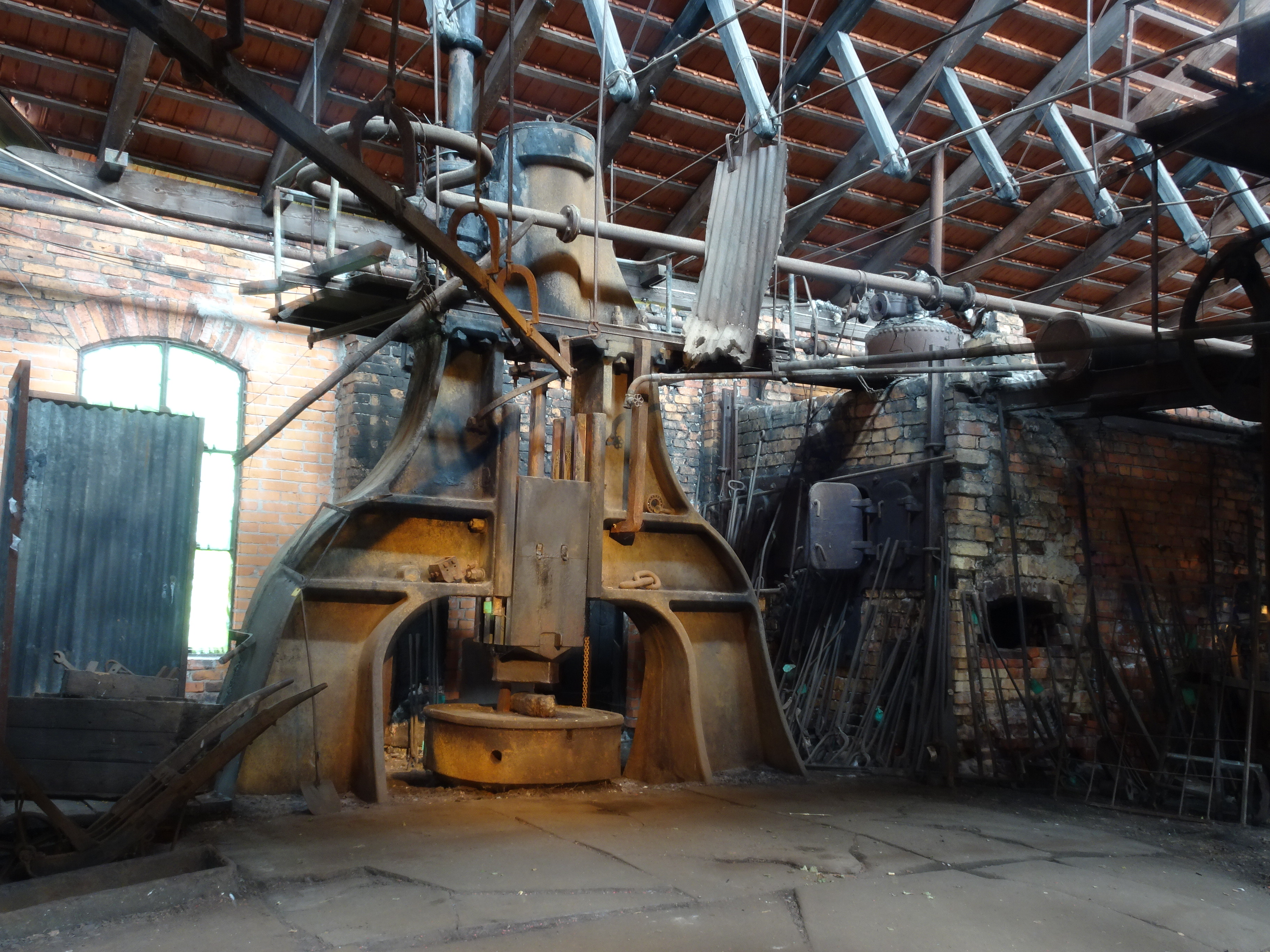 Interior of the Lancashire finery forge in Ramnäs, Sweden. The steam hammer.